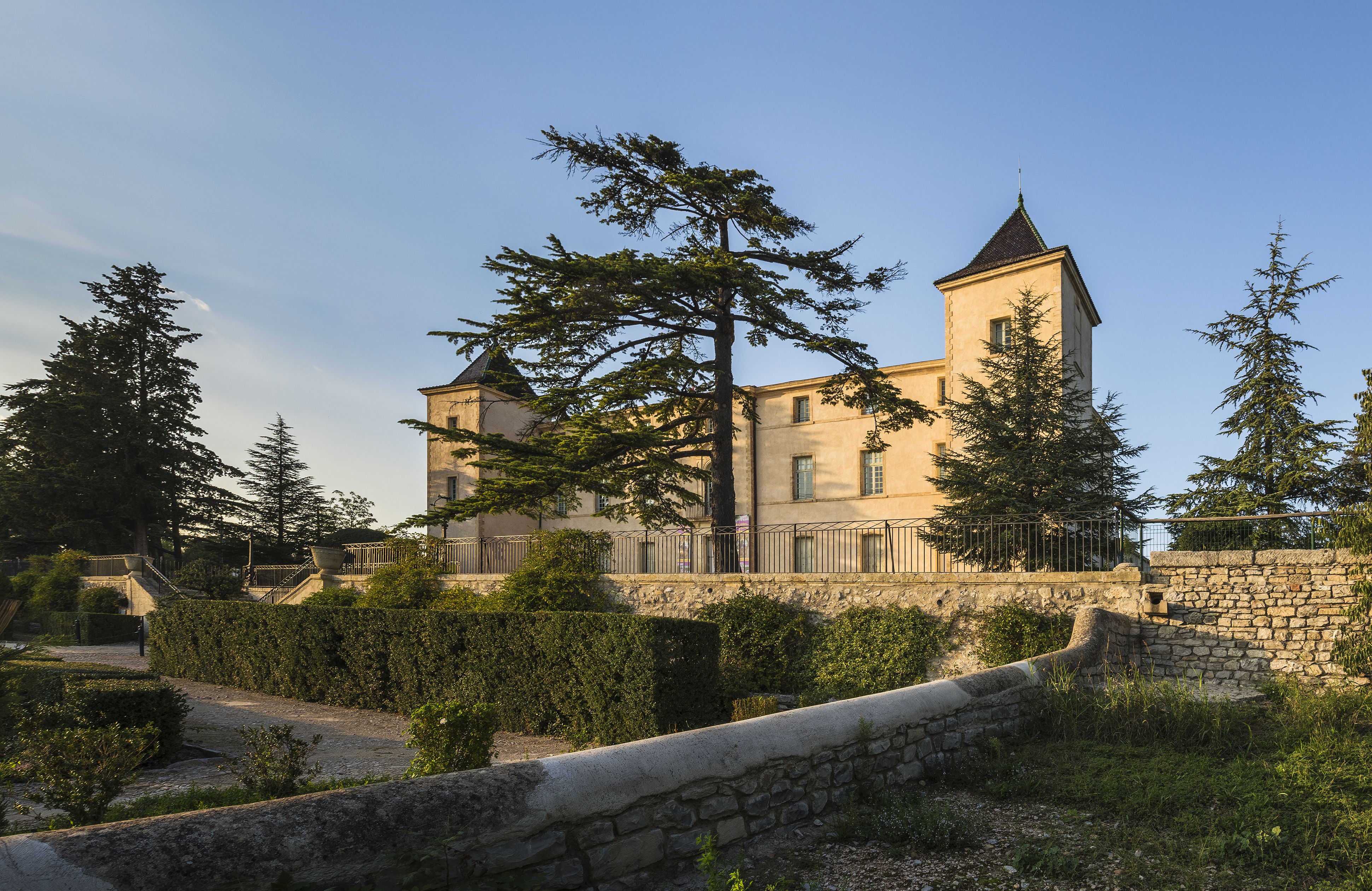 Castle of Restinclières (XVIIth century) in the Domaine départemental de Restinclières. Prades-le-Lez, Hérault, France.